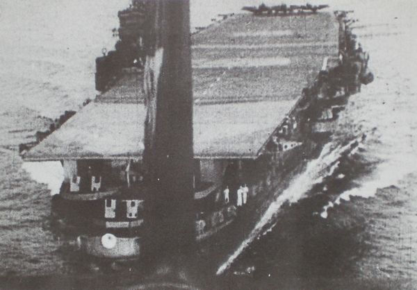 HIJMS Zuikaku in movie